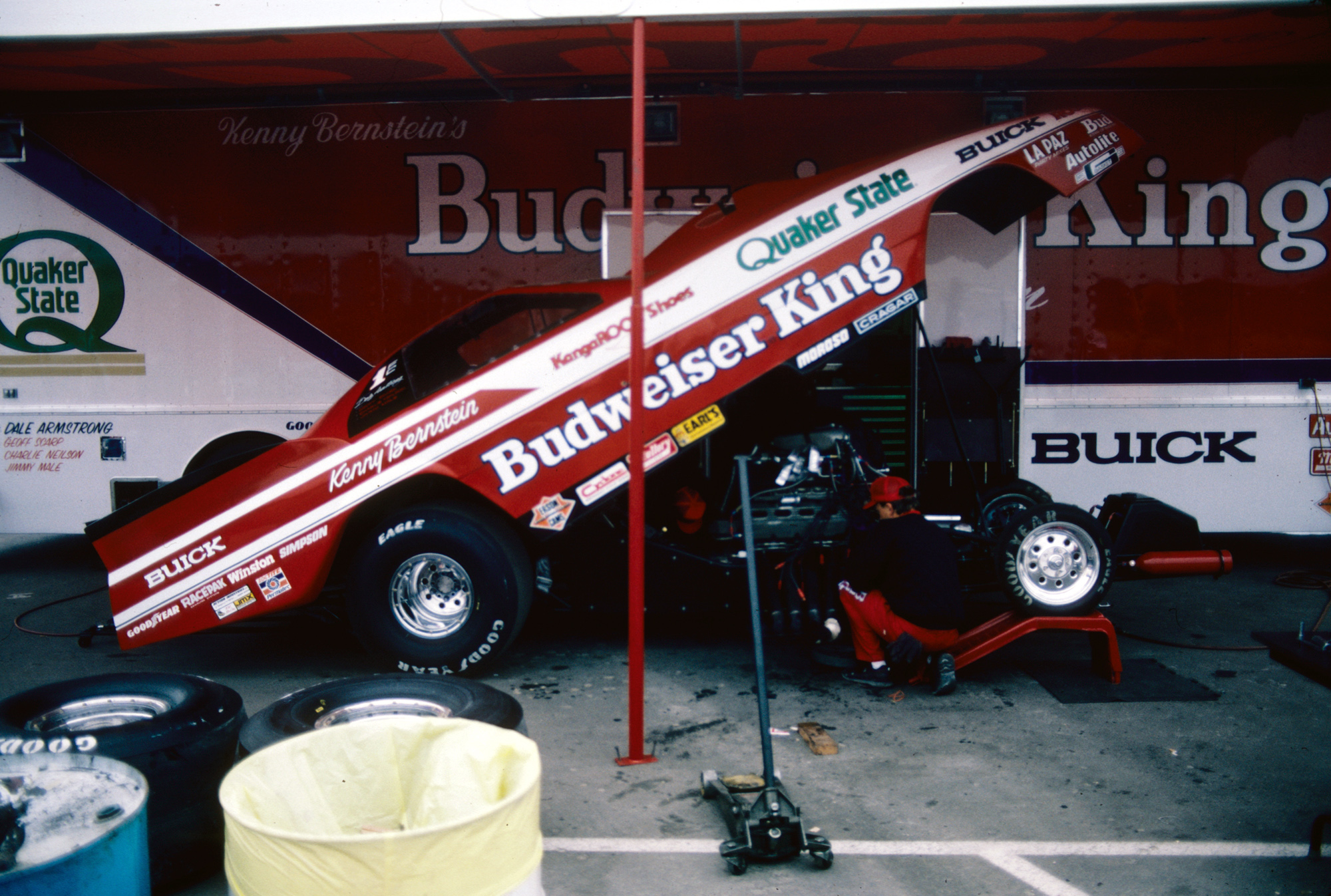 Kenny Bernstein at Texas Motorplex, April 1987. Kenny had just run the quickest pass in Funny Car history, a then-staggering 5.364 seconds to become the first sub-5.40 driver. Mike Dunn was busy being on fire in the next lane at the time.Kenny Bernstein